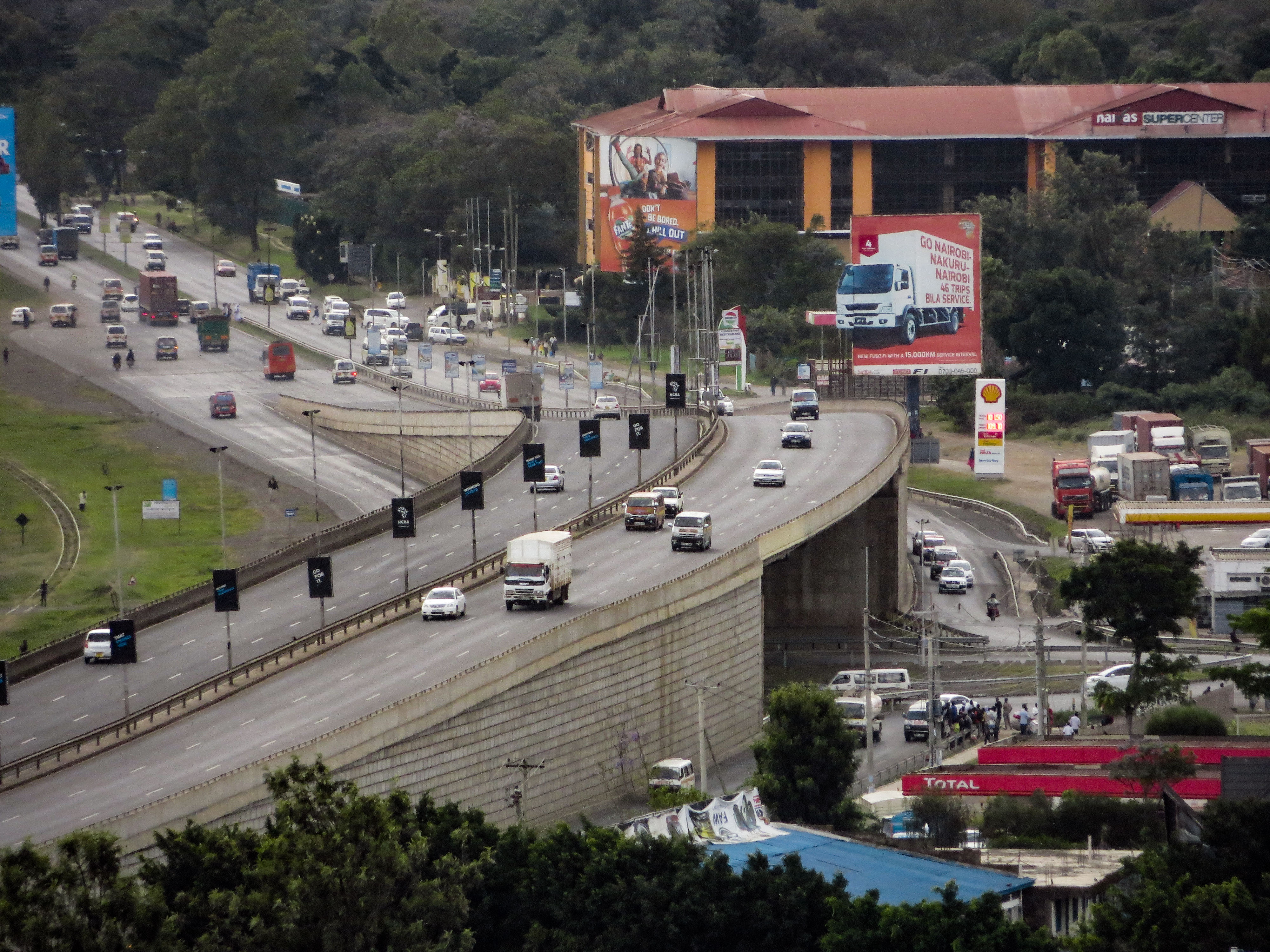 A newly constructed bypass that was created to ease traffic congestion This is an image with the theme "Africa on the Move or Transport" from: Kenya